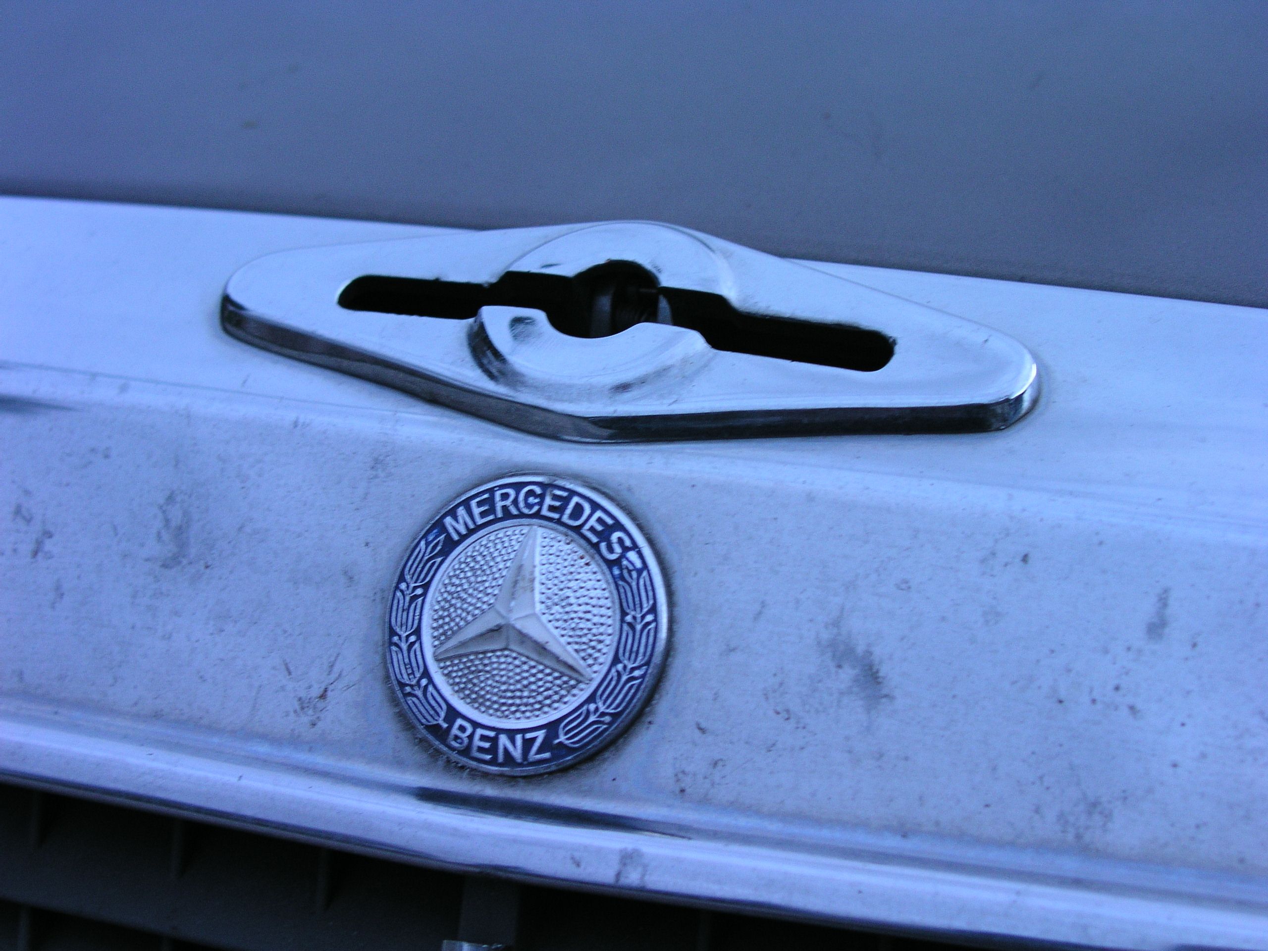 Retracted Mercedes-Benz Hood ornament.